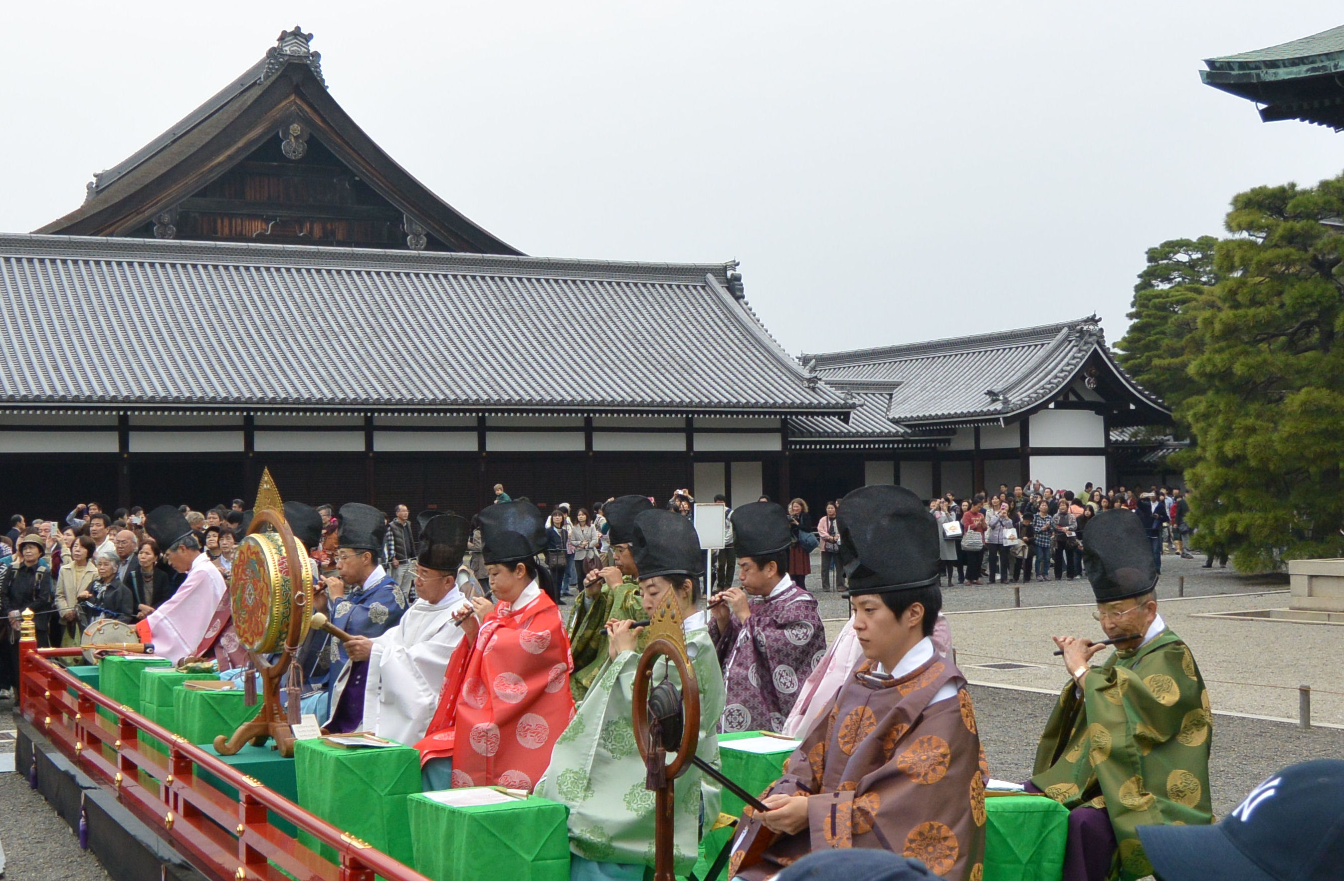 Traditional orchesrta at Kyoto Place